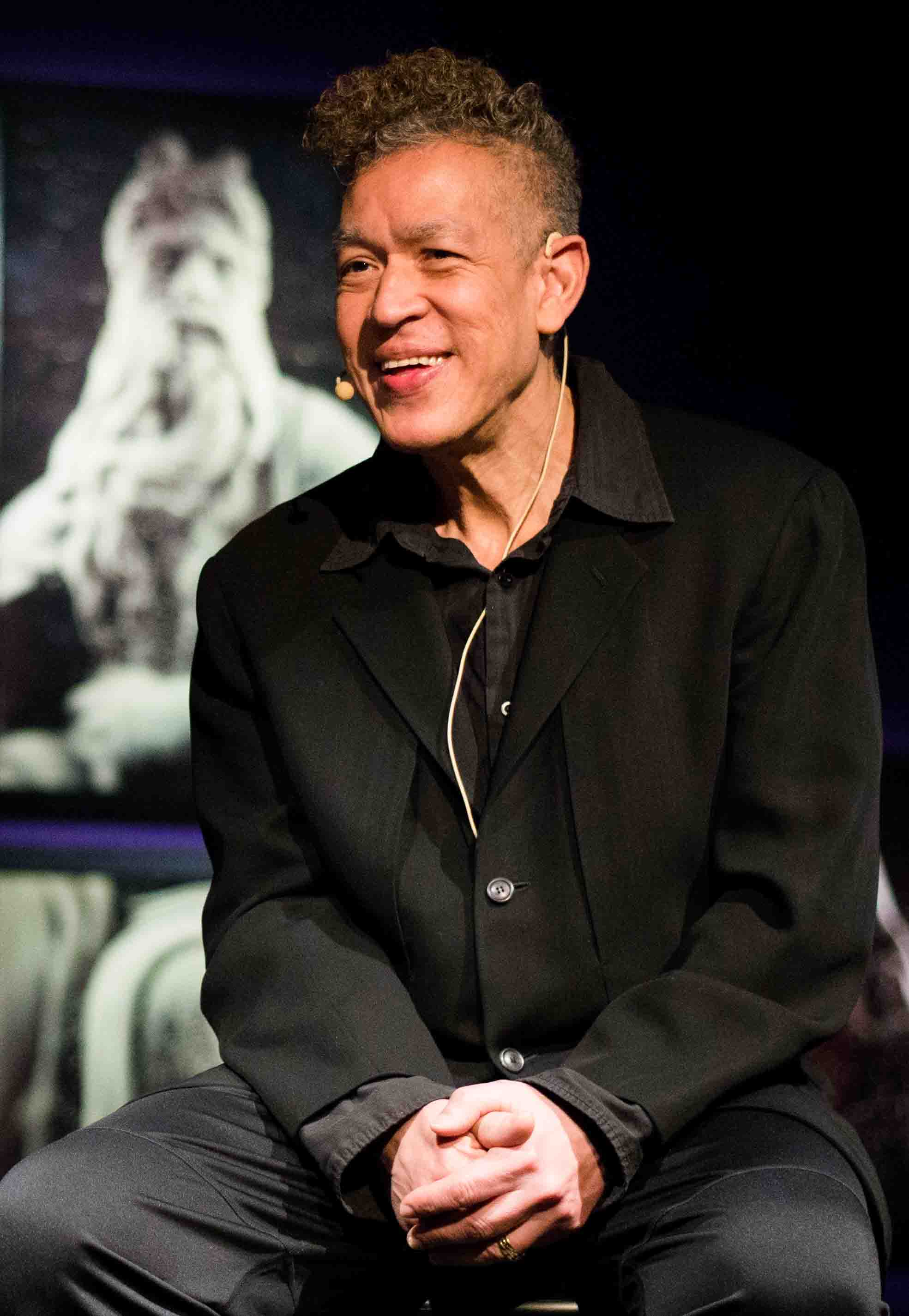 Andres Serrano presents the exhibition "Redemption" on Fotografiska in Stockholm on March12, 2015.